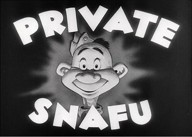 Opening card of the US army WWII short animated films "Private Snafu"